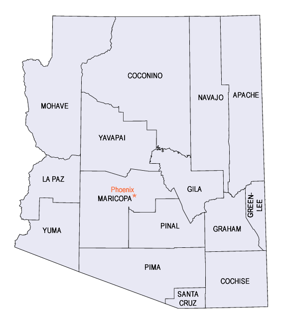 Arizona County Map Image source - [1] Was originally a gif. Converted to Az_county_map.png format. is a known public domain image resources. Image size 568 x 649px Disksize 15KB Category:Arizona maps